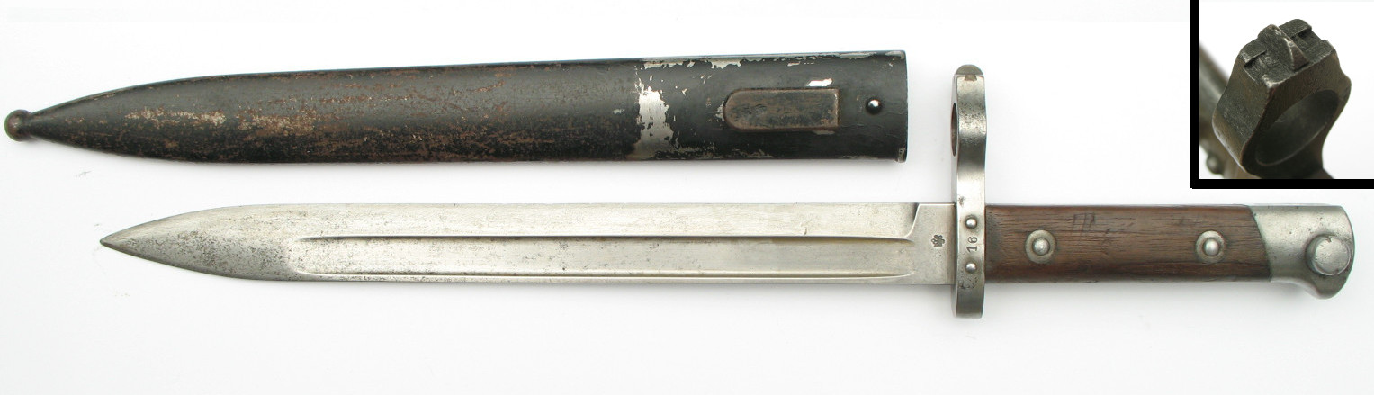 Mannlicher M1895 Bayonet (Stutzen variant) for M1895 "Stutzen" carbine